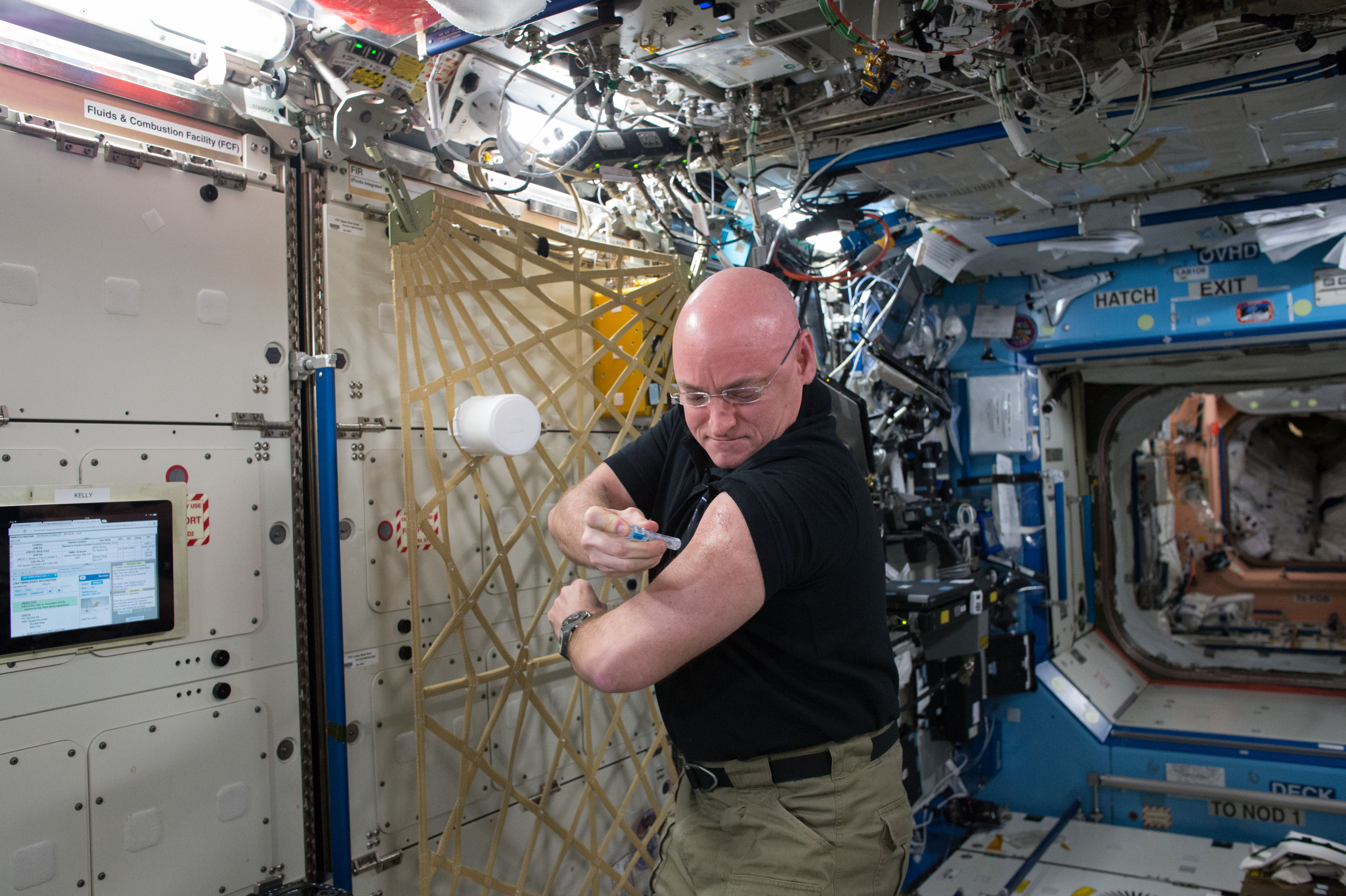 NASA astronaut Scott Kelly gives himself a flu shot for an ongoing study on the human immune system. The vaccination is part of NASA's Twins Study, a compilation of multiple investigations that take advantage of a unique opportunity to study identical twin astronauts Scott and Mark Kelly, while Scott spends a year aboard the International Space Station and Mark remains on Earth.